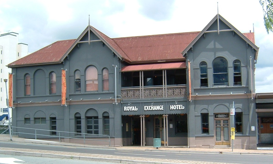 The Royal Exchange Hotel on High Street, in the suburb of Toowong, Brisbane. Photo taken on 8 November 2005. Photo taken by User:Adz